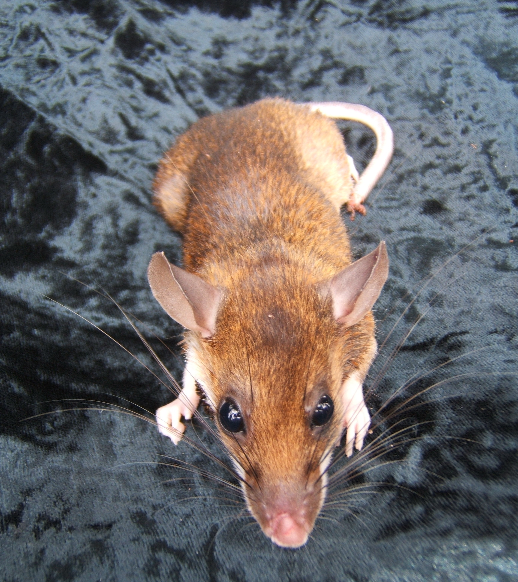 Unidentified species, but probably a Red Spiny Rat (Maxomys surifer) of the Muridae family, photographed on a piece of cloth